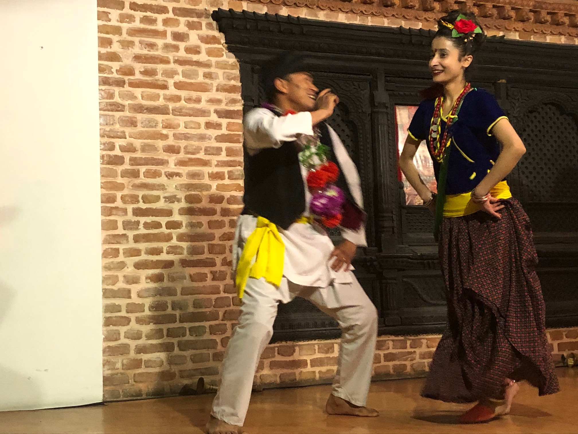 This photo has been taken in the country: Nepal